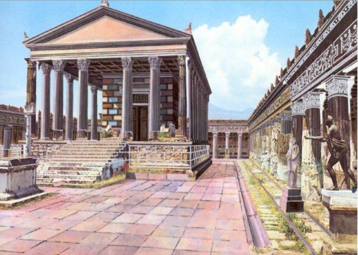 Artist's illustrated reconstruction of how the Temple of Apollo at Pompeii may have looked before Mt. Vesuvius erupted. The temple dates back to the second century BC. When Pompeii became a Roman colony in 80 BC, the temple was transformed into a Capitolium dedicated to the Capitoline Triad of Apollo, Juno, and Minerva. Placed upon a high podium, approximately ten feet tall, its axis formed the formal axis of and focal point of the Forum; it had two series of double columns dividing it longitudinally, typifying a Greek influenced Roman temple, and its back wall was veneered in marble.